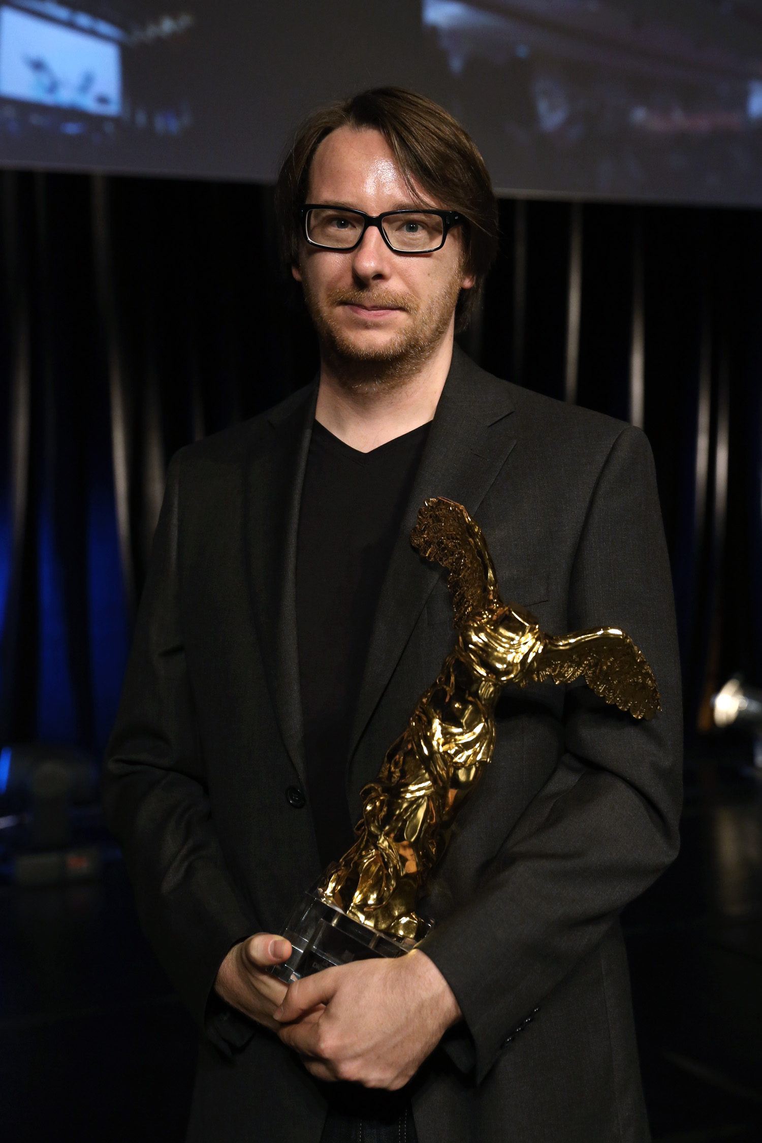 Nicolas Bernier ("frequencies (a)") with the Golden Nica of the Prix Ars Electronica 2013 in the category Digital Music & Sound Art; Brucknerhaus, Linz, Upper Austria.